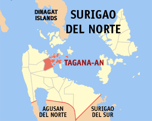 Map of the Surigao del Norte showing the location of Tagana-an